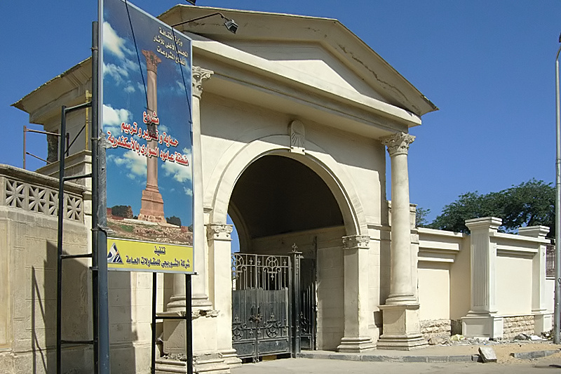 Entrance, Sarapaion, Alexandria, Egypt